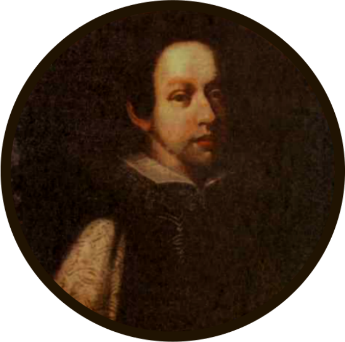 Canvass from Birgu town hall, Malta. An inscription on the original painting identifies it as a portrait of Basilicus Melitensis, another name for Ioan Iacob Heraclid or Despot-Vodă, 1560s Prince of Moldavia; local legend additionally claims that Heraclid was Maltese, or strongly connected to Malta. In his analysis, Romanian historian Andrei Pippidi noted that the identification was spurious, though Heraclid's connection with Malta was attested to some degree. He believes that the work is a depiction of Cosimo II de' Medici, the Tuscan Grand Duke in 1609–1621, and that the misleading inscription was created in the 19th century, to substantiate the legend. See Andrei Pippidi, "Două portrete românești în Malta", in Studii și Materiale de Istorie Medie, Vol. 18, 2000, pp. 177–179. The portrait and inscription, however, are both attested in Gianfrancesco (Giovanni Francesco) Abela and Giovannantonio Ciantar, Malta illustrata, ovvero Descrizione di Malta isola del mare Siciliano e Adriatico, pp. 524–525. Valletta: Stamperia del Palazzo di S.A.S., 1780.